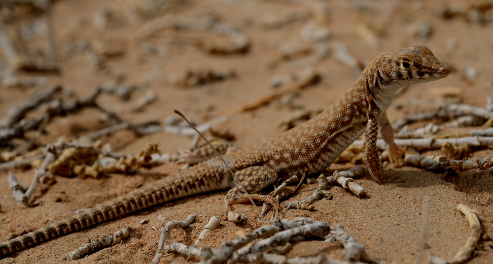 Acanthodactylus schmidti in the desert and the body structure clear, He was courtship while the picture was taken.